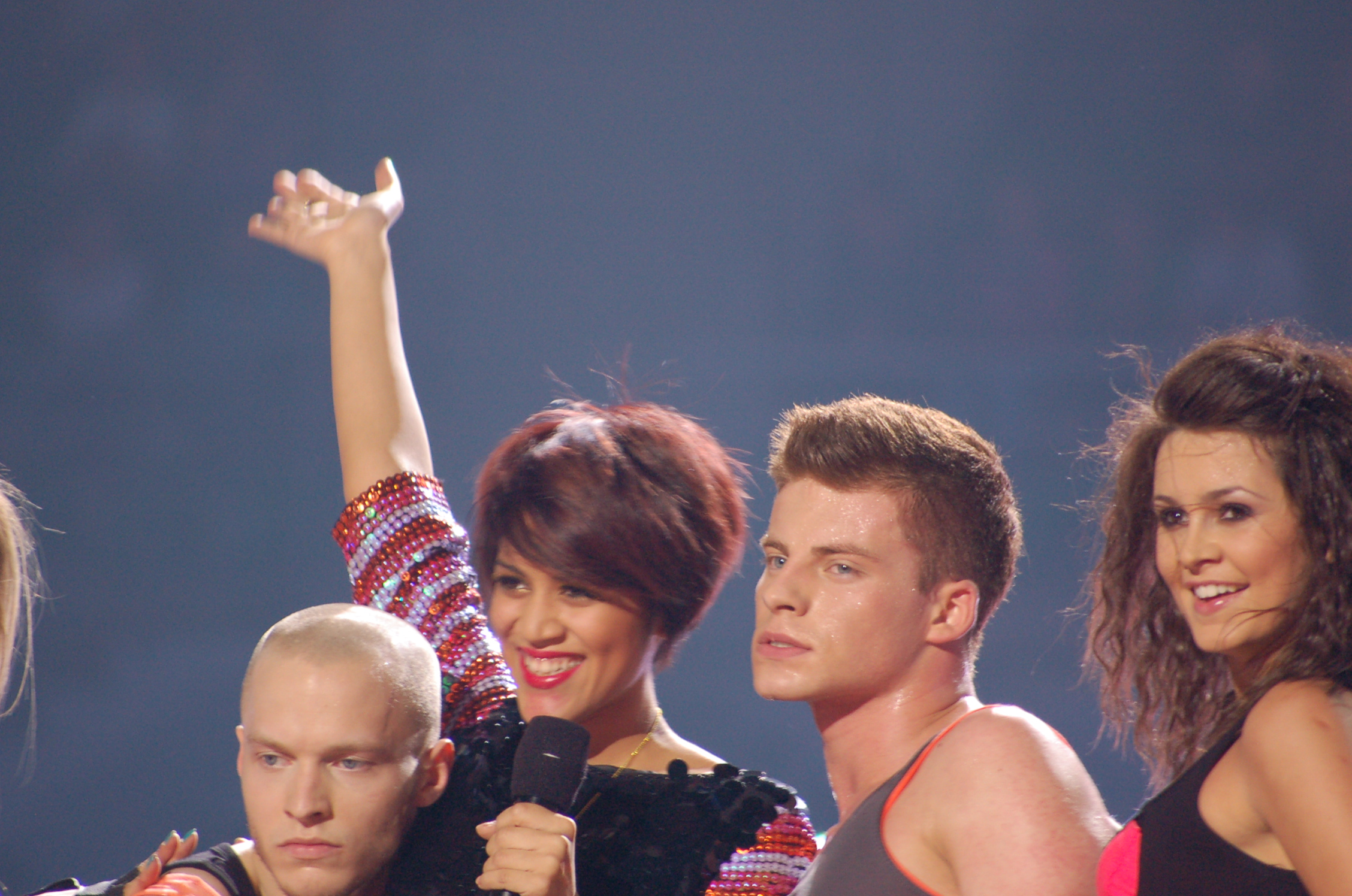 Julissa Veloz Performance in Poland